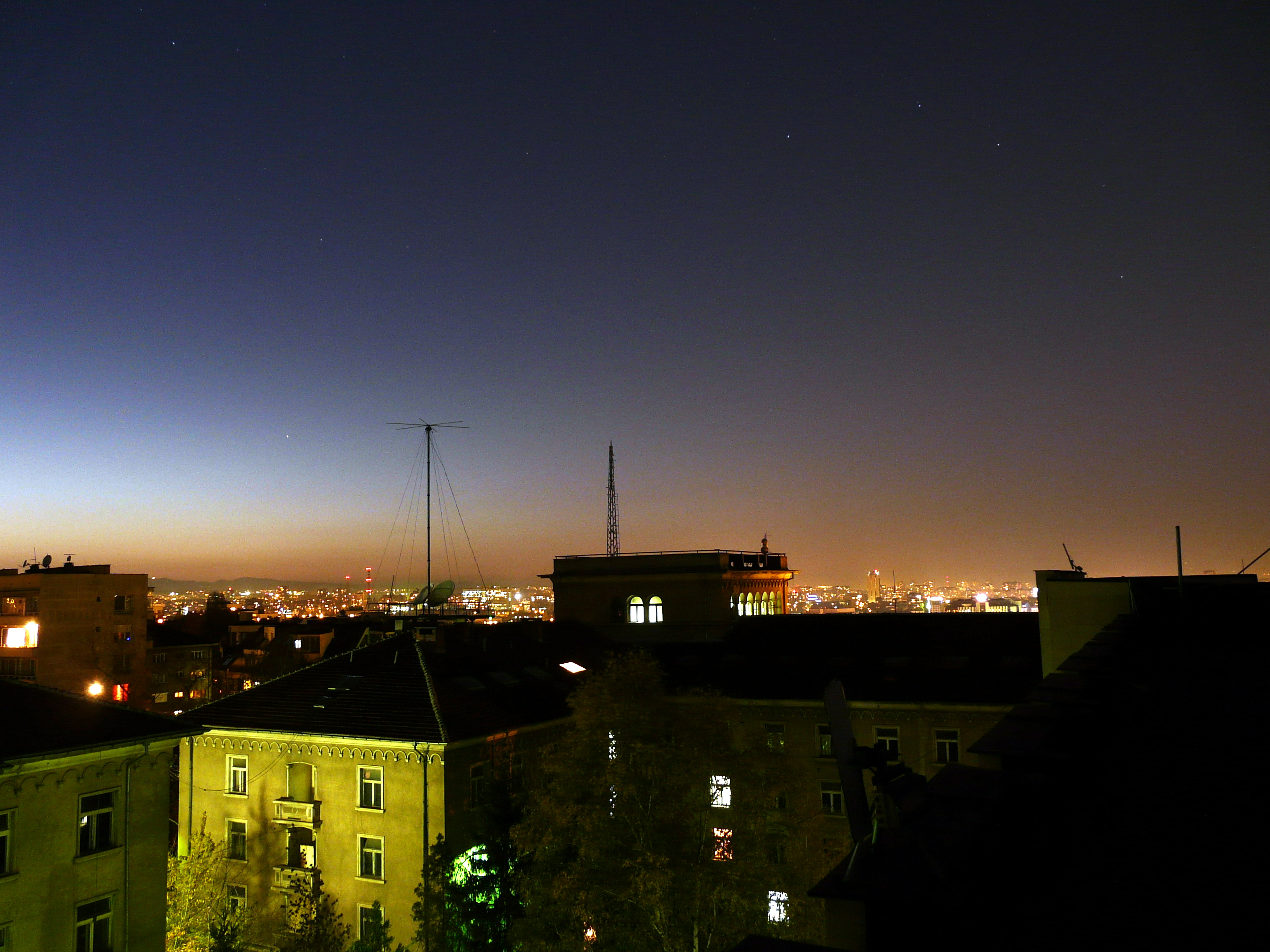 The tower of the Physics Faculty of the Sofia University.